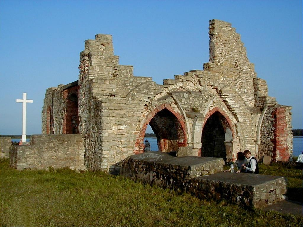 Church ruins on Saint Meinhard Island near Ikšķile